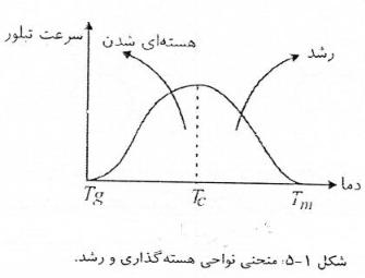 Nucleation and growth